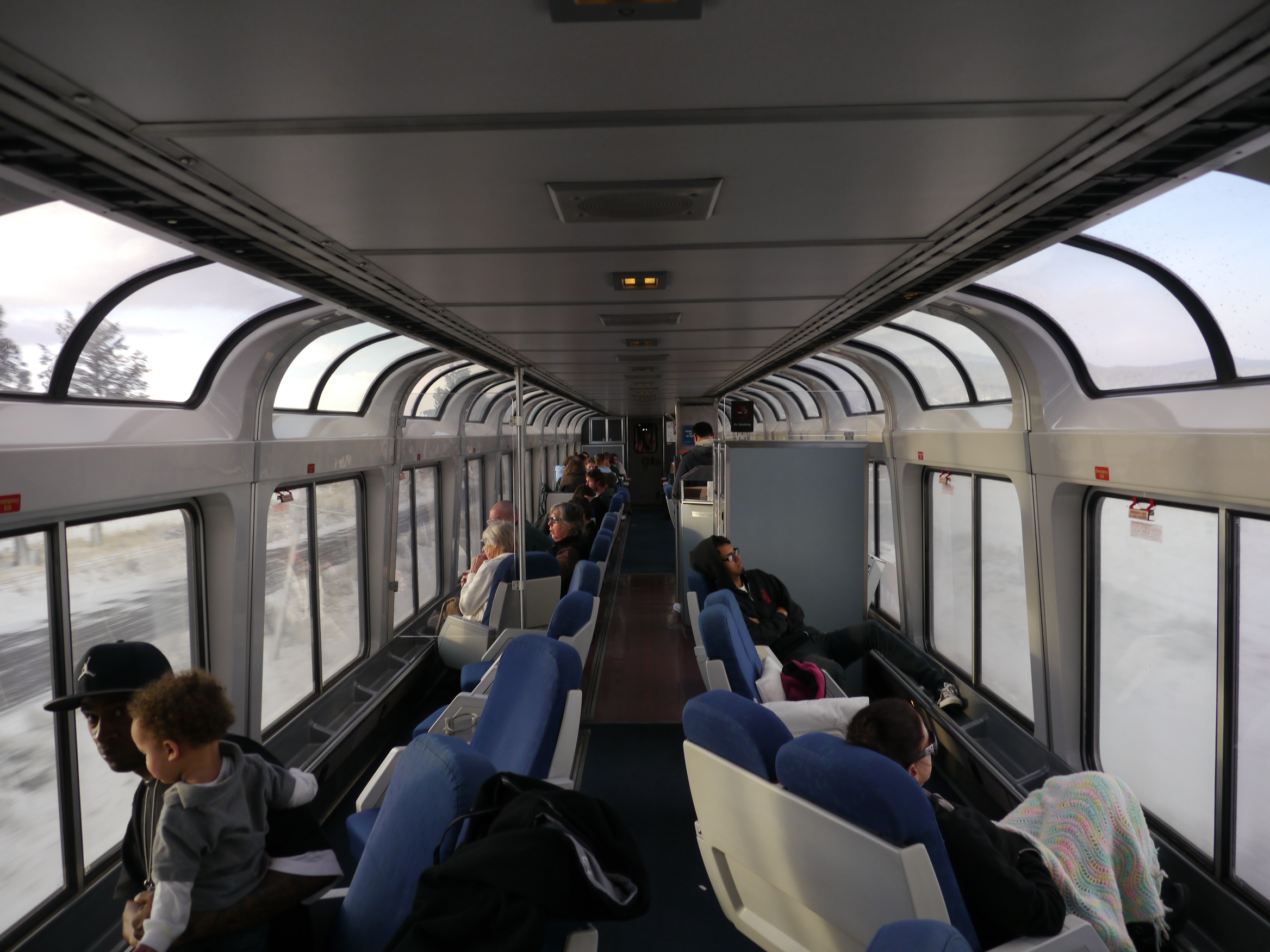 The interior of a Superliner II Sightseer Lounge. Northbound.